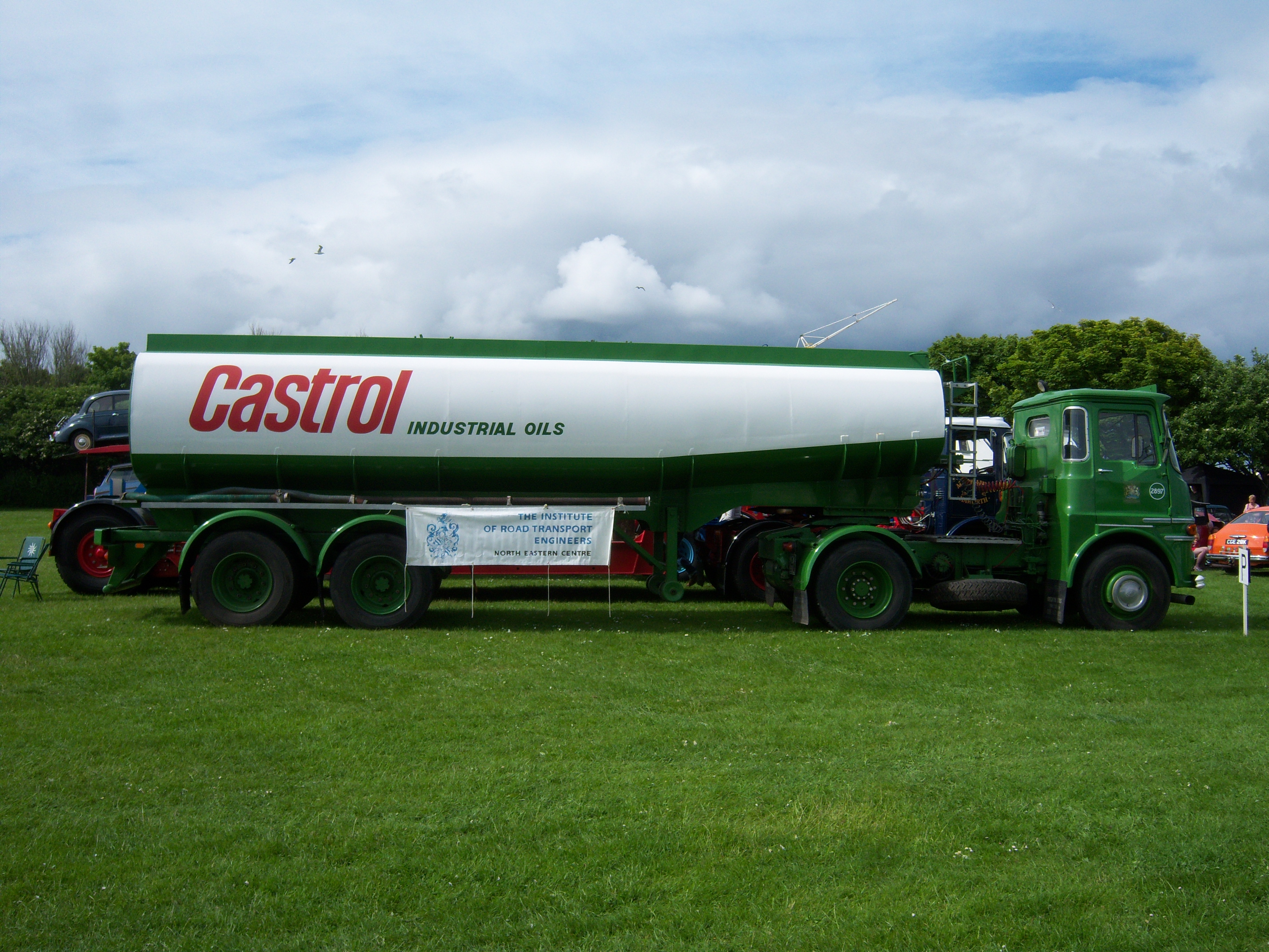 A 1970 ERF 64CU articulated tanker lorry (reg. MGW 981L), pictured at the end of the 2012 HCVS Tyne-Tees Run. It was bought for preservation in 1991 and restored into the livery of Castrol, for whom it worked for throughout its life, latterly as a shunter.